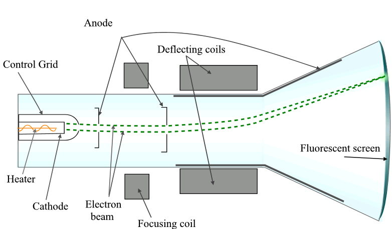 Diagram of a CRT tube